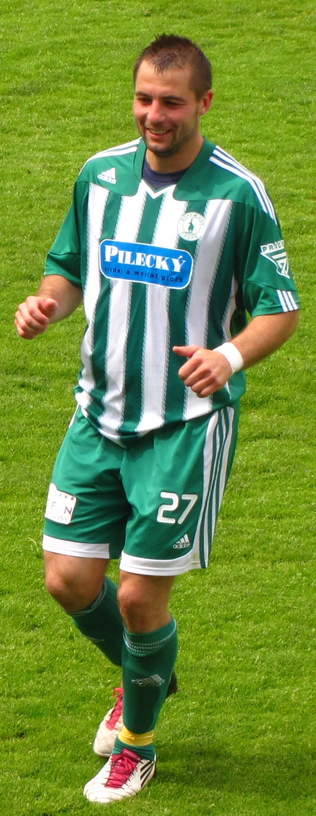 Martin Horáček, Czech footballer